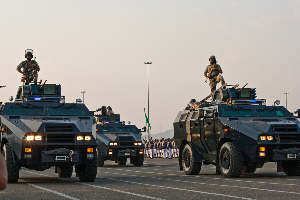 Photo by Omar Chatriwala